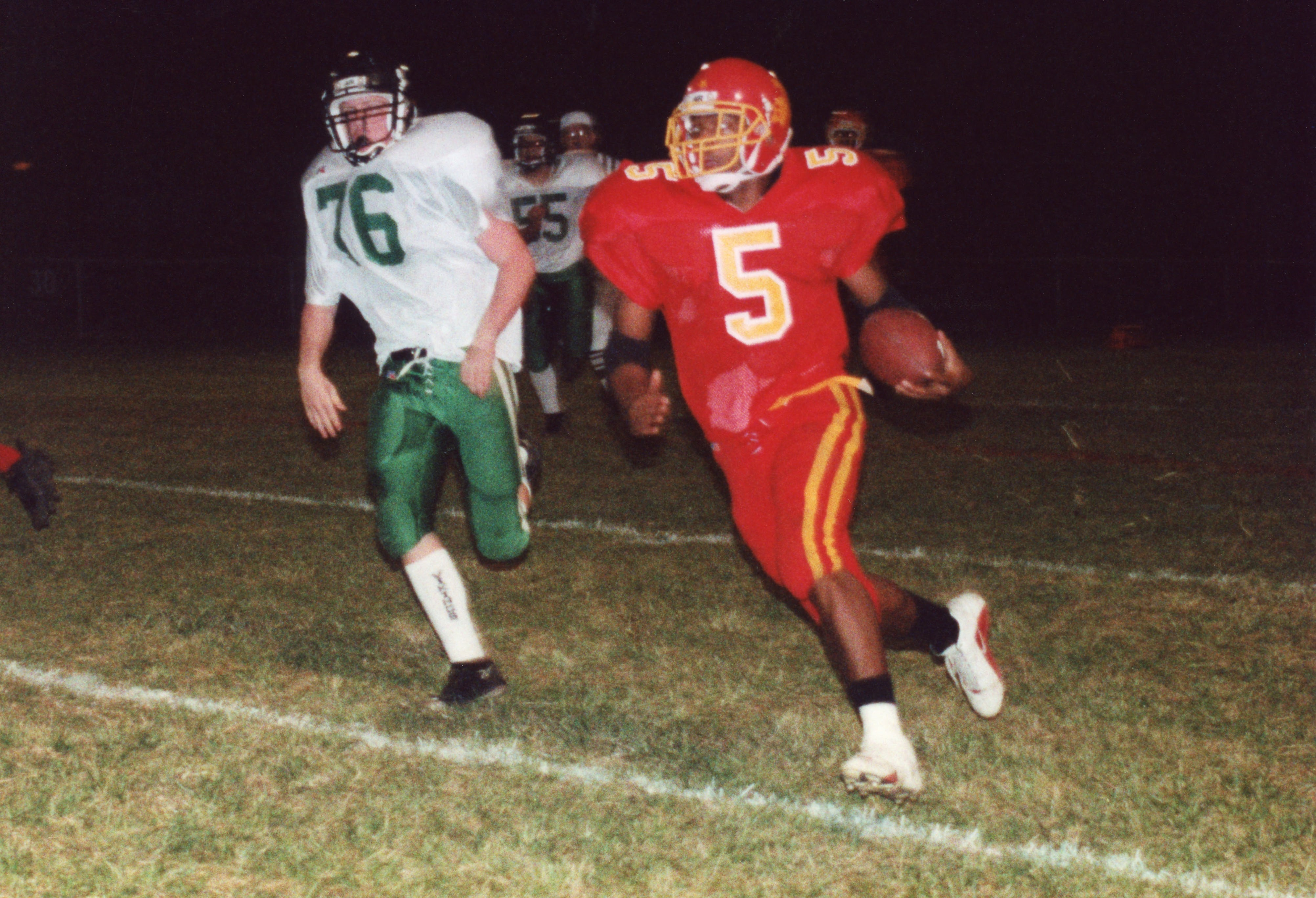 High school football, running back, 1999, by Rick Dikeman